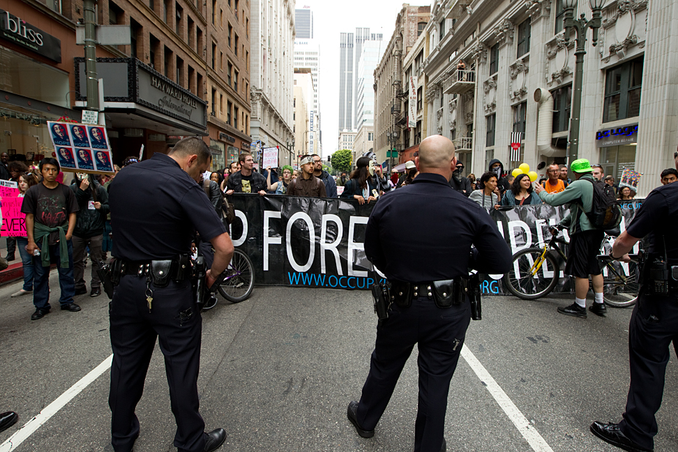 LAPD officers hold a line against members of Occupy Los Angeles, participating along side planned May Day marches in downtown